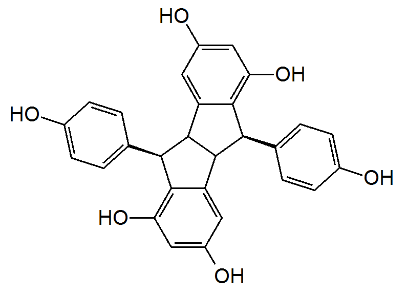 Chemical structure of pallidol